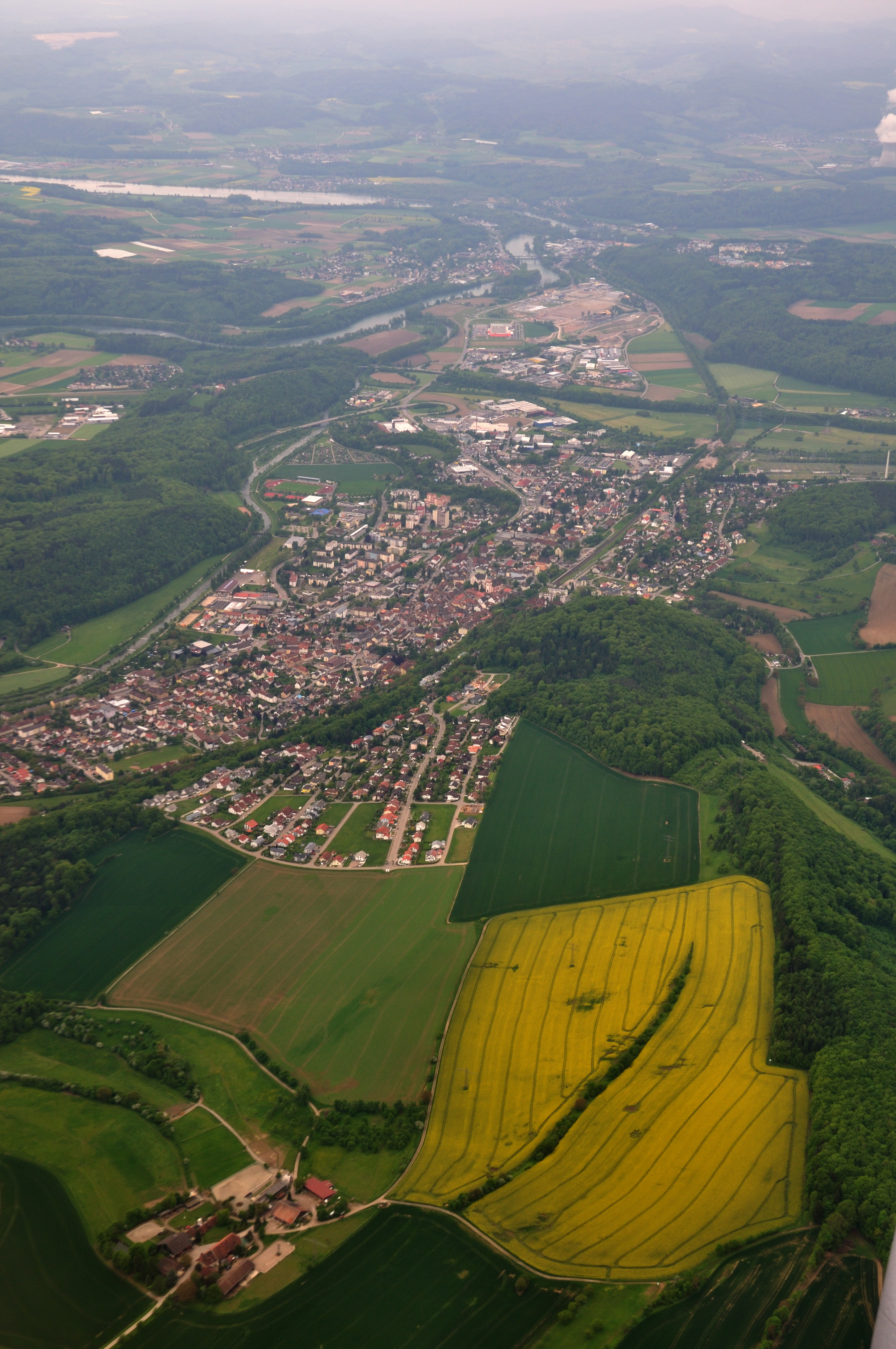 Germany, Baden-Württemberg, aerial view of Tiengen, part of Waldshut-Tiengen (position: circa overhead Detzeln, not in picture)